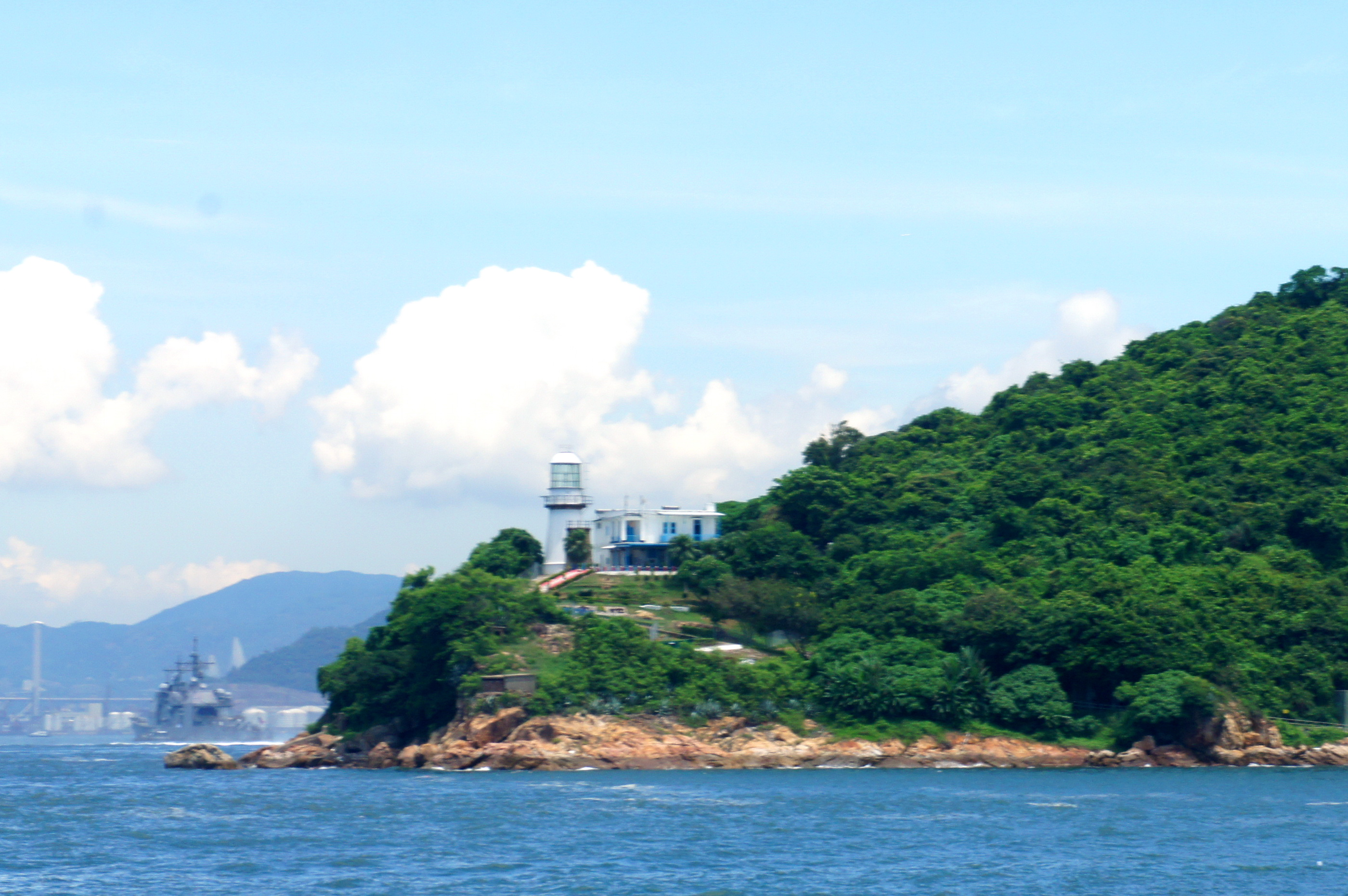 Green Island Lighthouse Compound, Hong Kong.